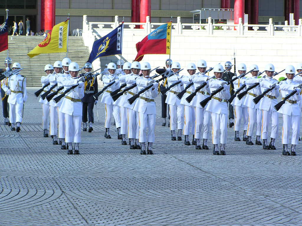 Military parade of The Honor Guard of Republic of China in front of Chiang Kai-shek Memorial Hall, Taipei City.